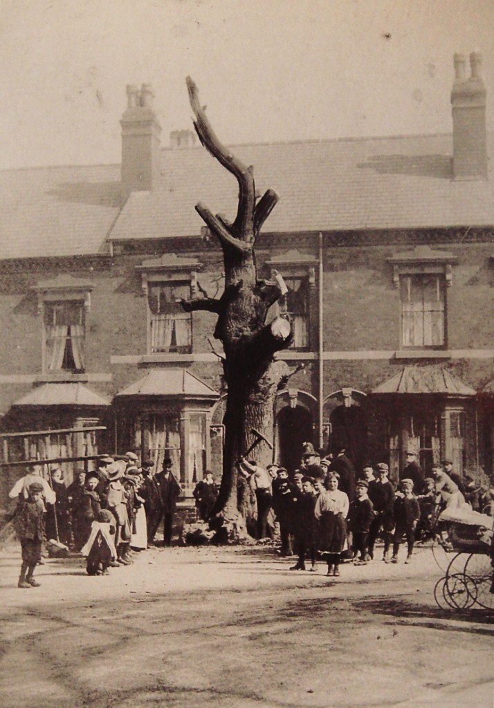 The old oak tree at Selly Oak being felled by the local authority's workmen. With the branches already removed, an axeman poses for the camera before beginning the work of finally chopping the tree down watched by a small crowd [Images of this postcard have appeared in the following publications: Dowling, Geoff, et al., Selly Oak Past and Present: A Photographic Survey of a Birmingham Suburb (Department of Geography, University of Birmingham, 1987), p. 2; Maxam, Andrew, Selly Oak & Weoley Castle on Old Picture Postcards, Yesterday's Warwickshire Series No. 20 (Reflections of a Bygone Age, Keyworth, 2004), image No. 26; Butler, Joanne, et al., Selly Oak and Selly Park, Images of England Series (Tempus Publishing Ltd, Stroud, 2005), p. 23]